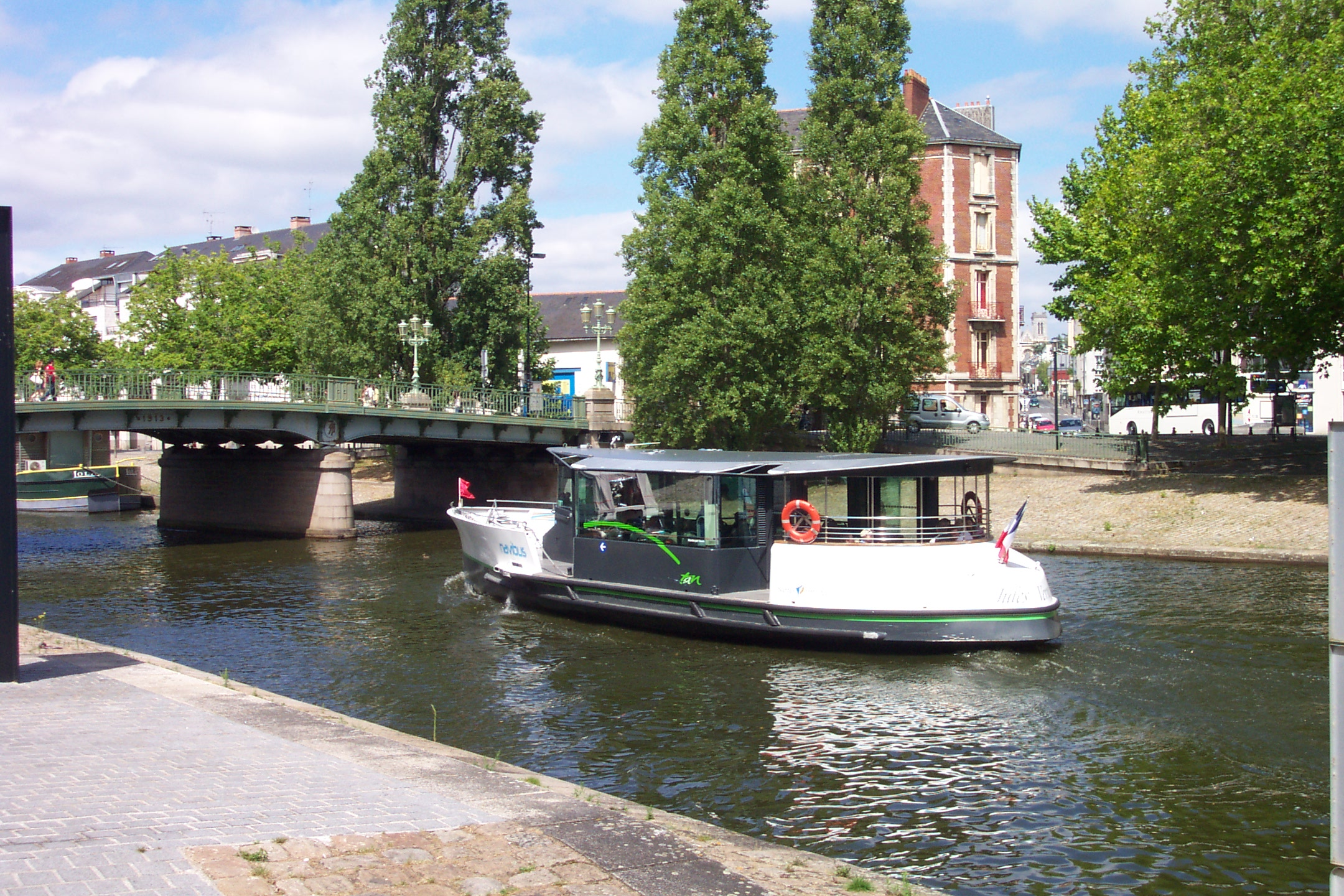 The Navibus Jules Verne, on the River Erdre in the centre of Nantes, France. This boat is used on the Navibus Erdre service, which operates through the St Felix canal tunnel. For more information, see the Wikipedia article Navibus